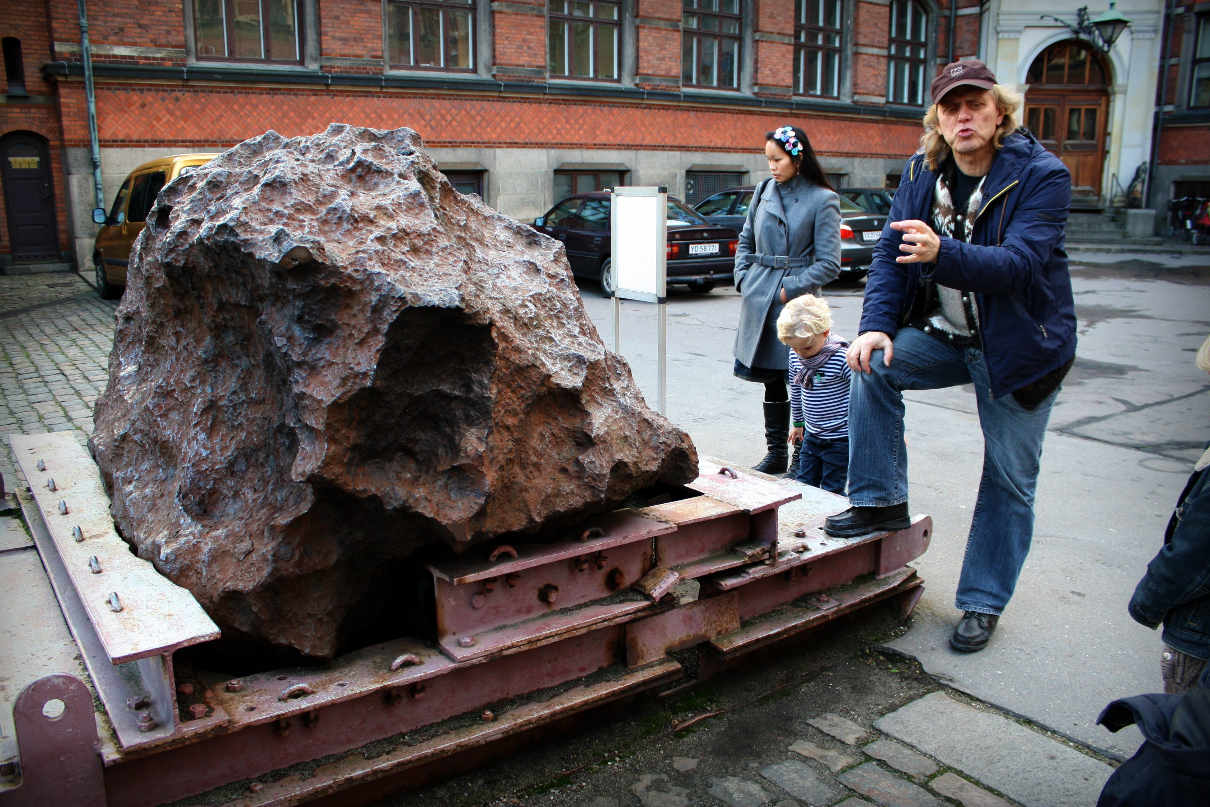 Agpalilik fragment of Cape York meteorite. Peter from the geological museum explains us stuff about the Agpalilik meteorite, found on the ice in Greenland.